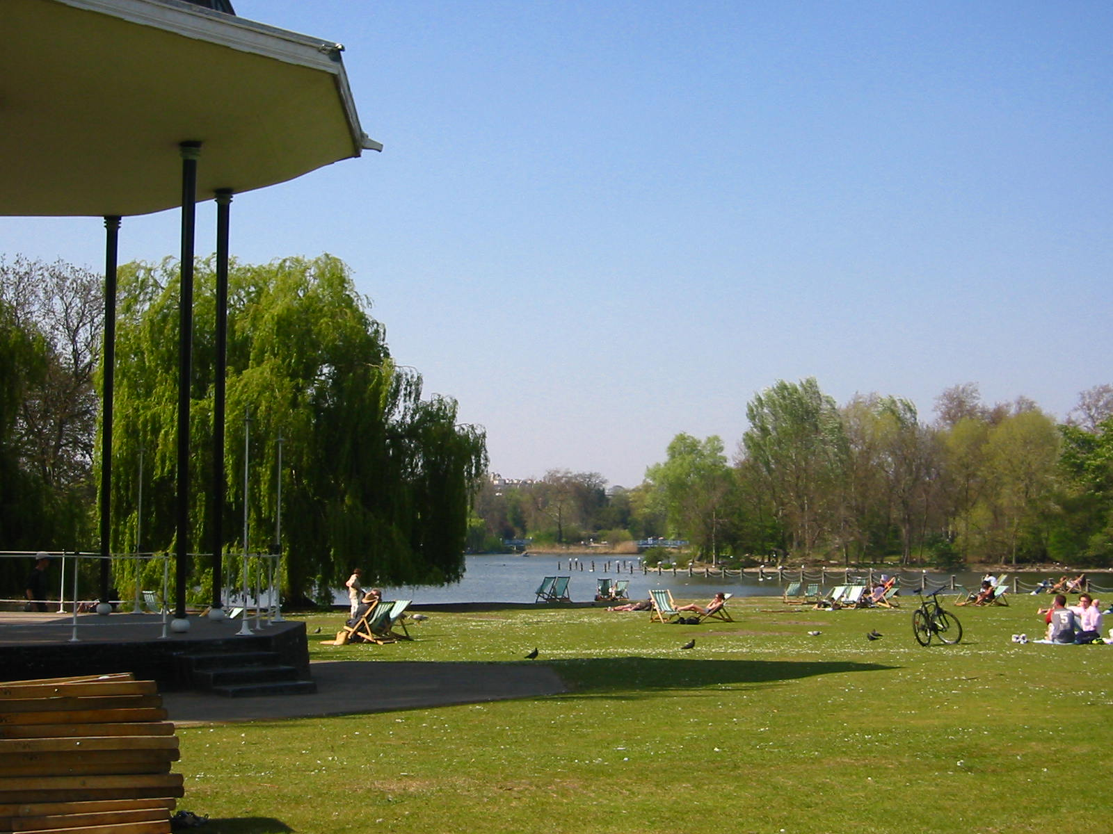 The bandstand in Regent's Park. 00